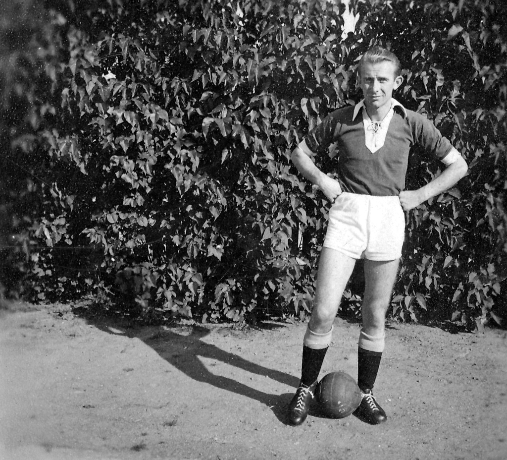 Wiesław Witecki playing for Lipno club